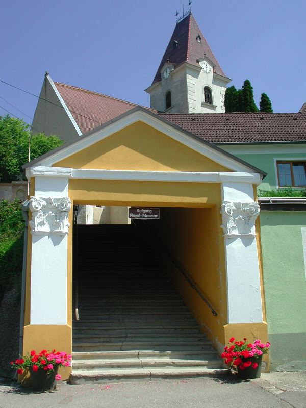 Pleyel museum and birthplace, Rupperthal, Lower Austria. Taken by me.